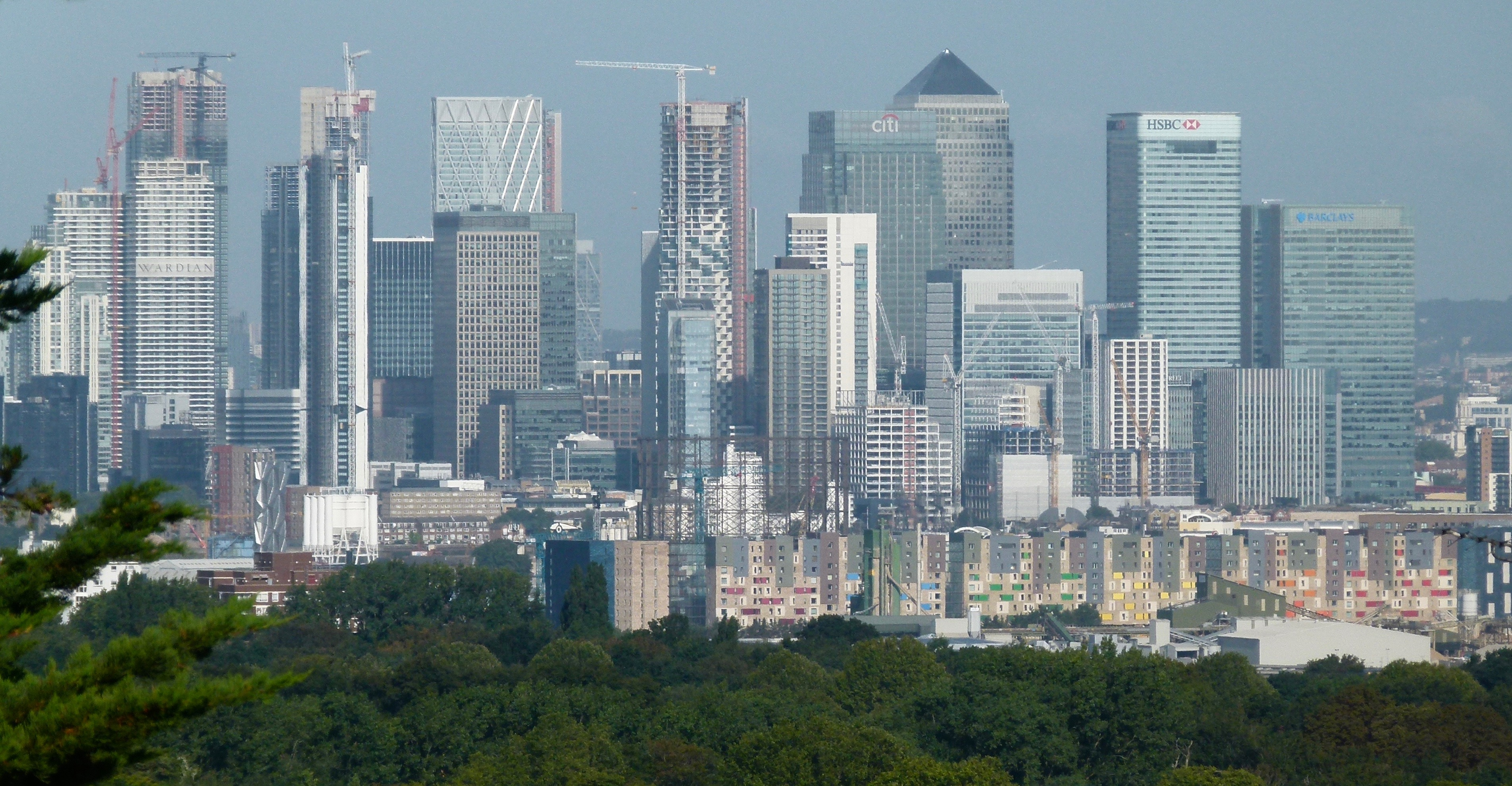 View from Eglinton Hill of Woolwich Common and the Greenwich Peninsula in South-east London, UK. In the background Canary Wharf.